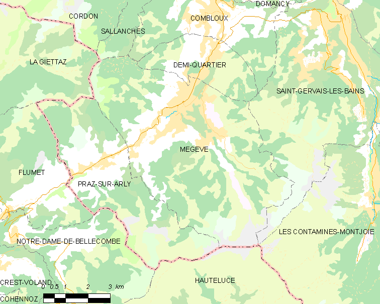 Map of French municipality Megève